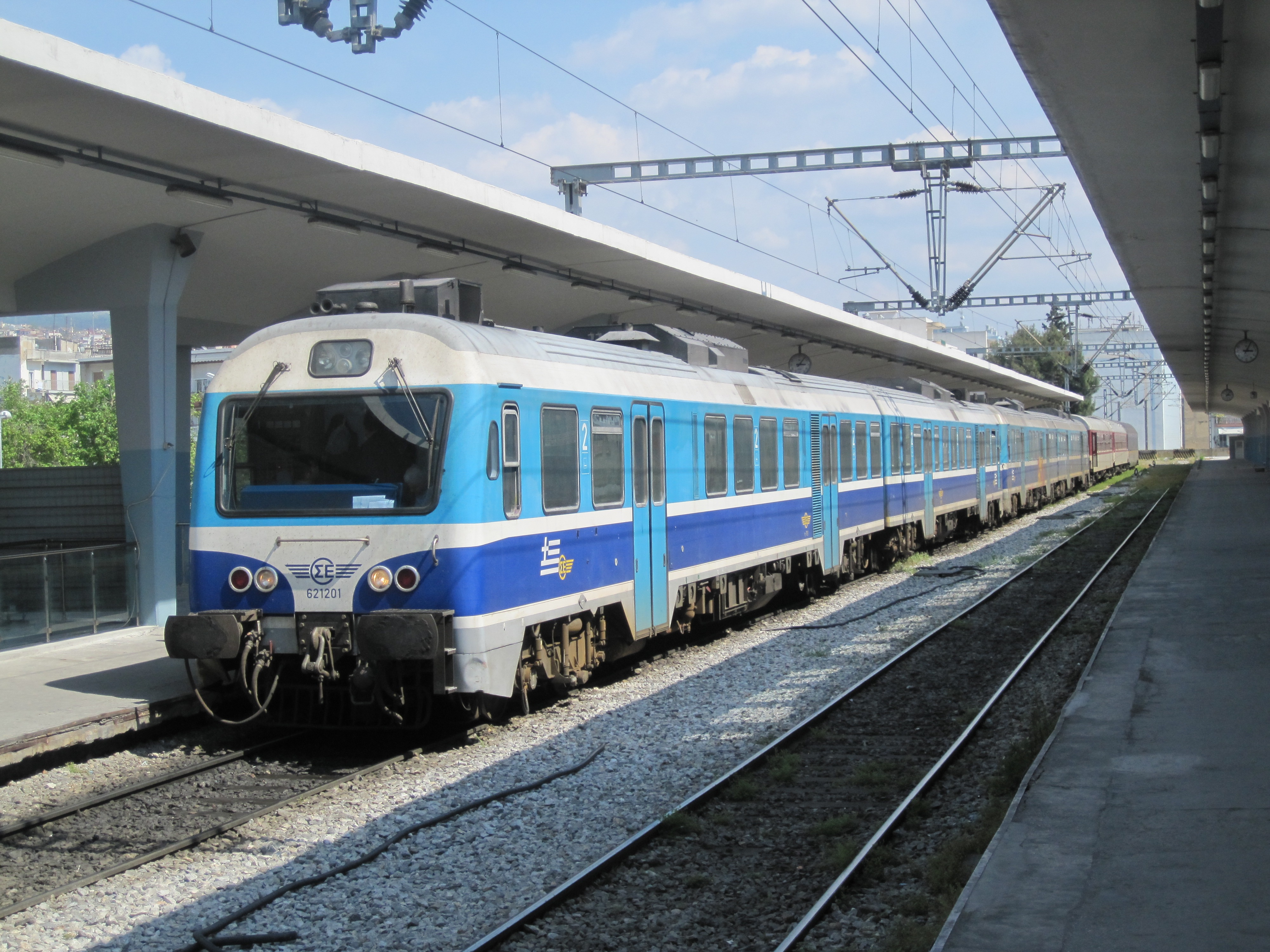 2-car DMU class 621 sets again seen at Thessaloníki.